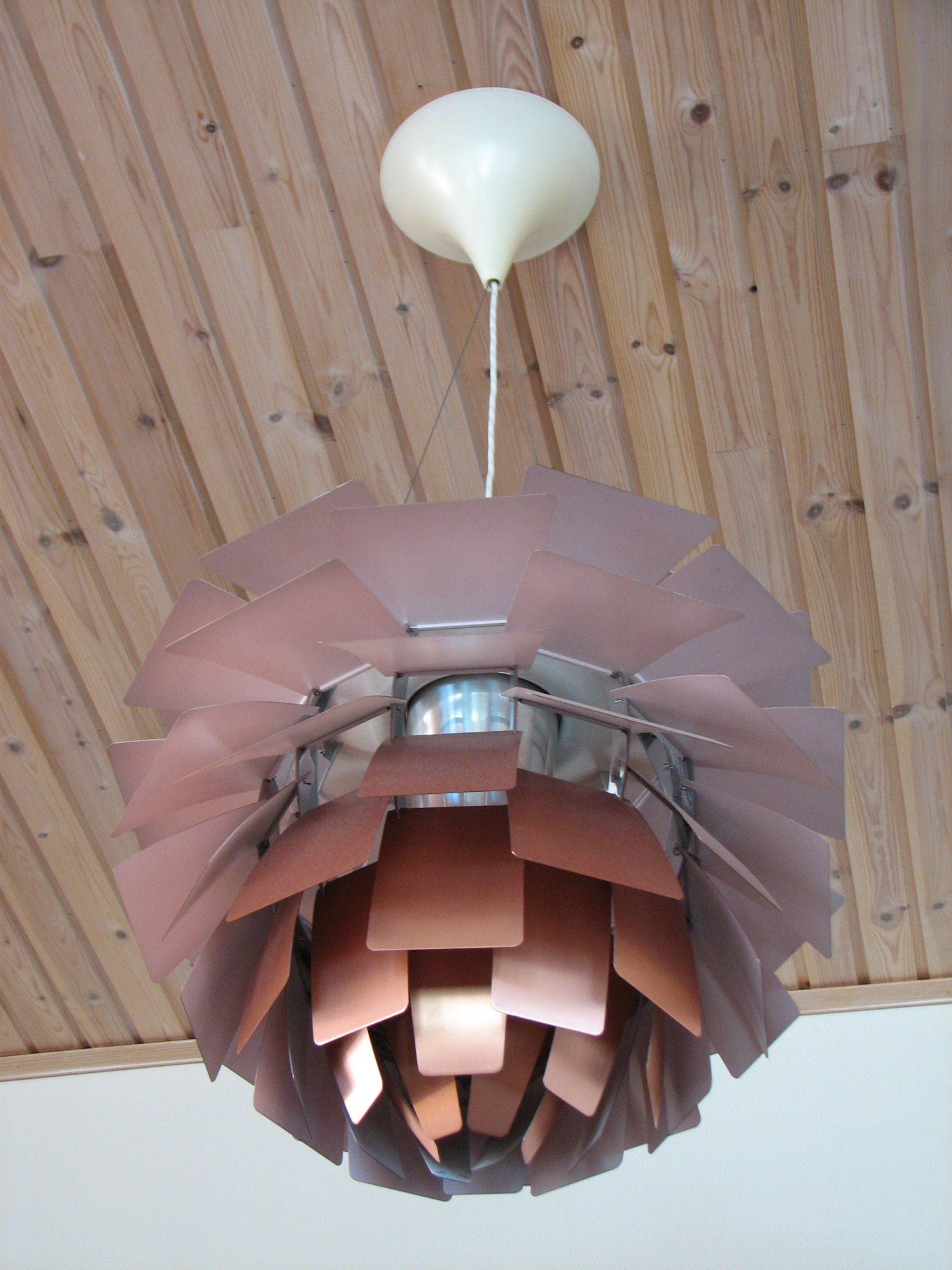 The PH Artichoke lamp, designed by Danish architect Poul Henningsen (9 September 1894 – 31 January 1967)